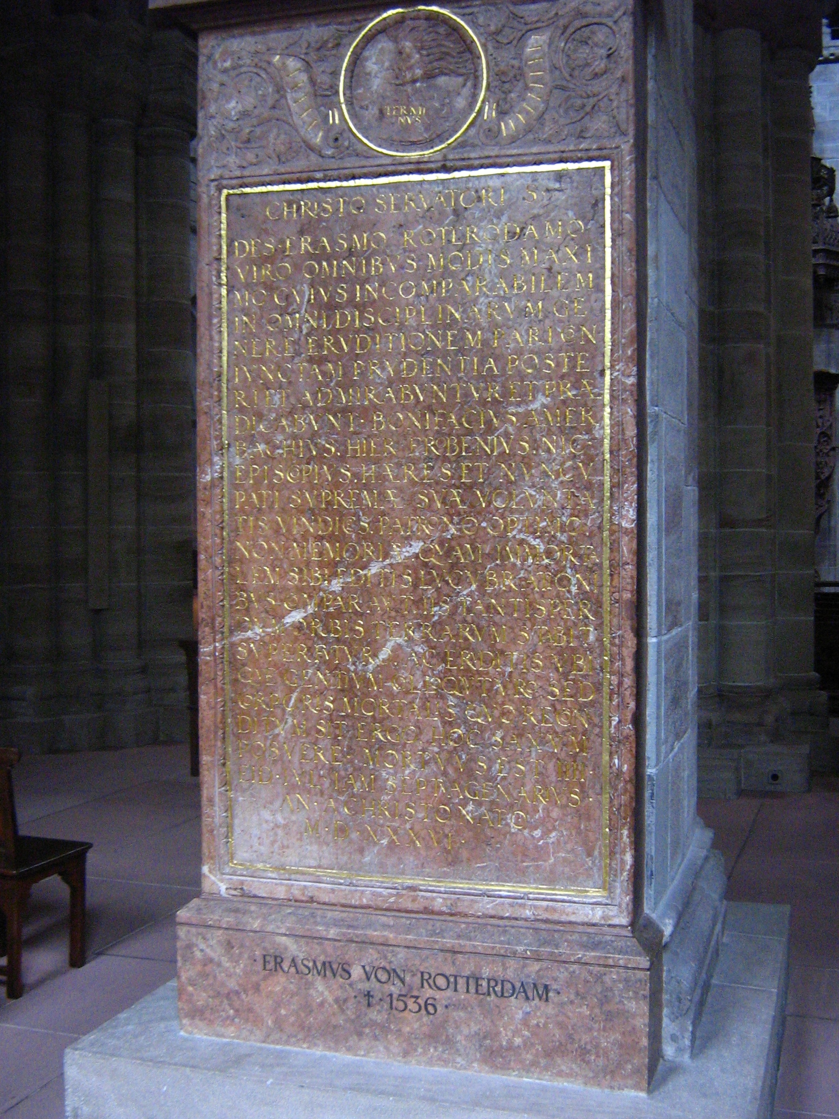 Erasmo da Rotterdam grave, Münster (Basel)